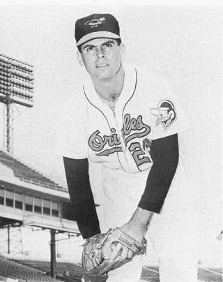 Professional baseball player Chuck Estrada